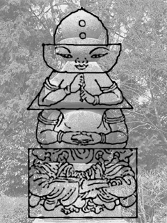 Gorinkujimyohimitsusyaku